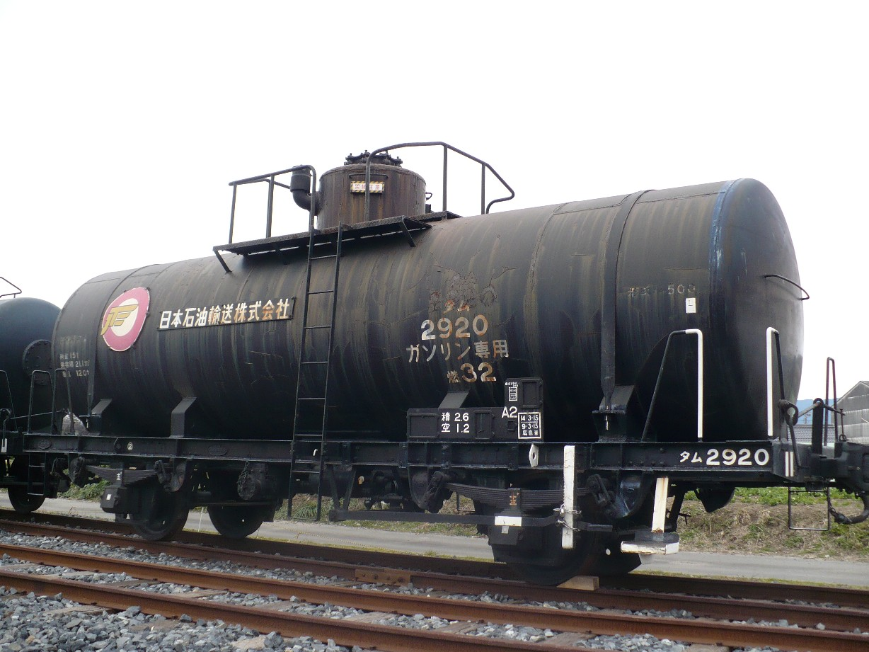 JNR Tamu 500 (2920) preserved at Freight Railway Museum in Inabe, Japan. The tank car was specially made for gasoline transport.